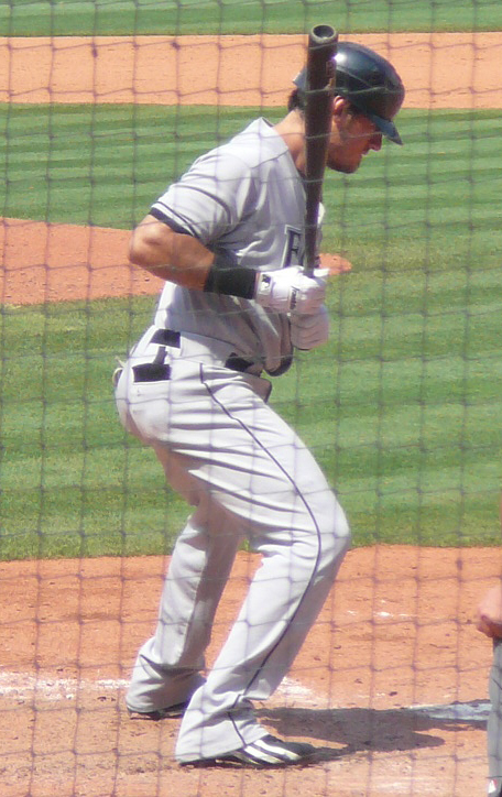 Please attribute photo with author's name if used somewhere other than Wikipedia. 19:50, 3 August 2008 . . Chrisjnelson . . 456×724 (329 KB)